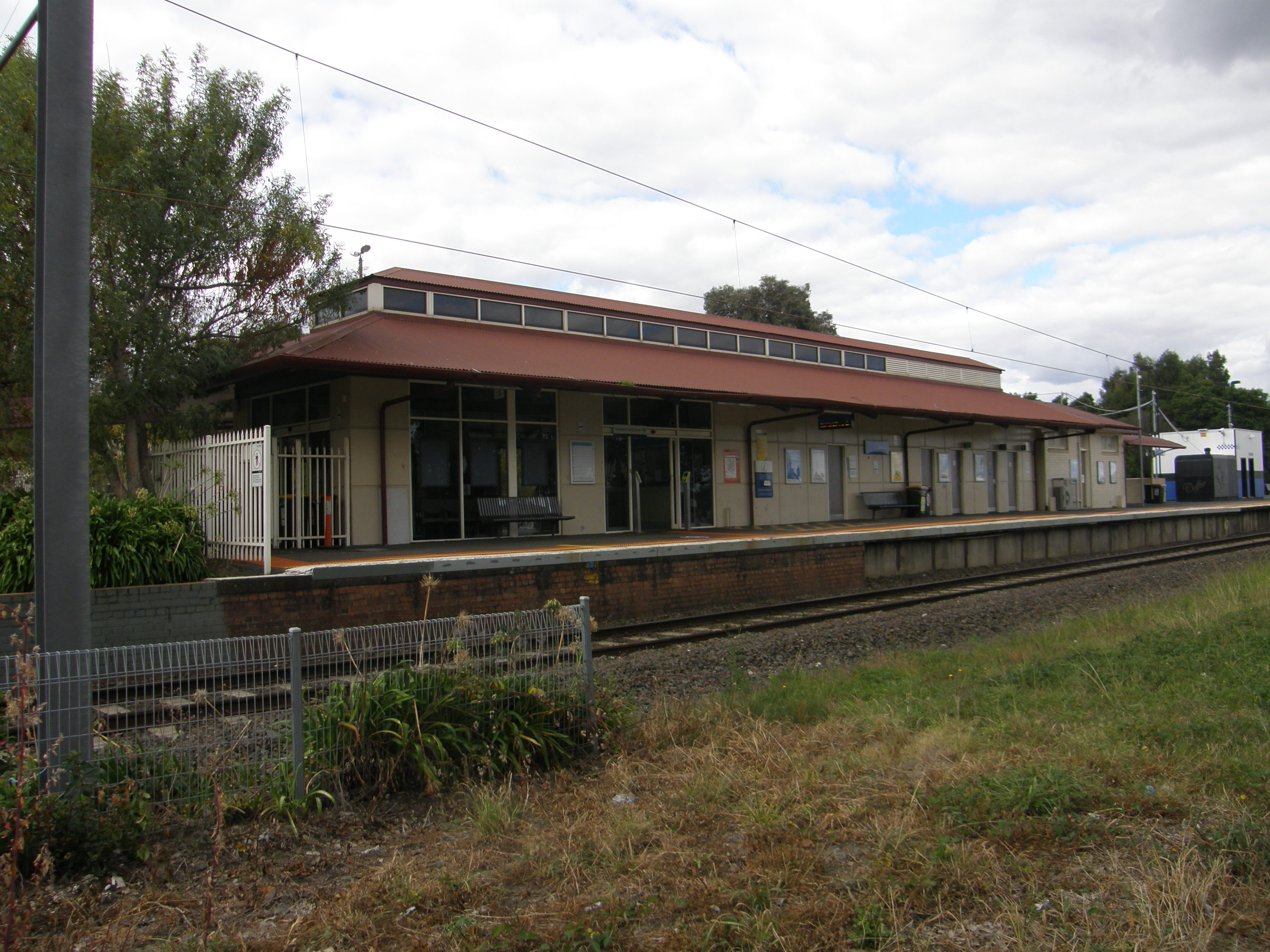 Berwick railway station platform.